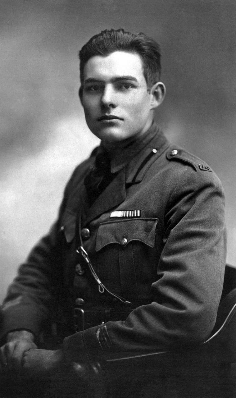 Ernest Hemingway in Milan, 1918